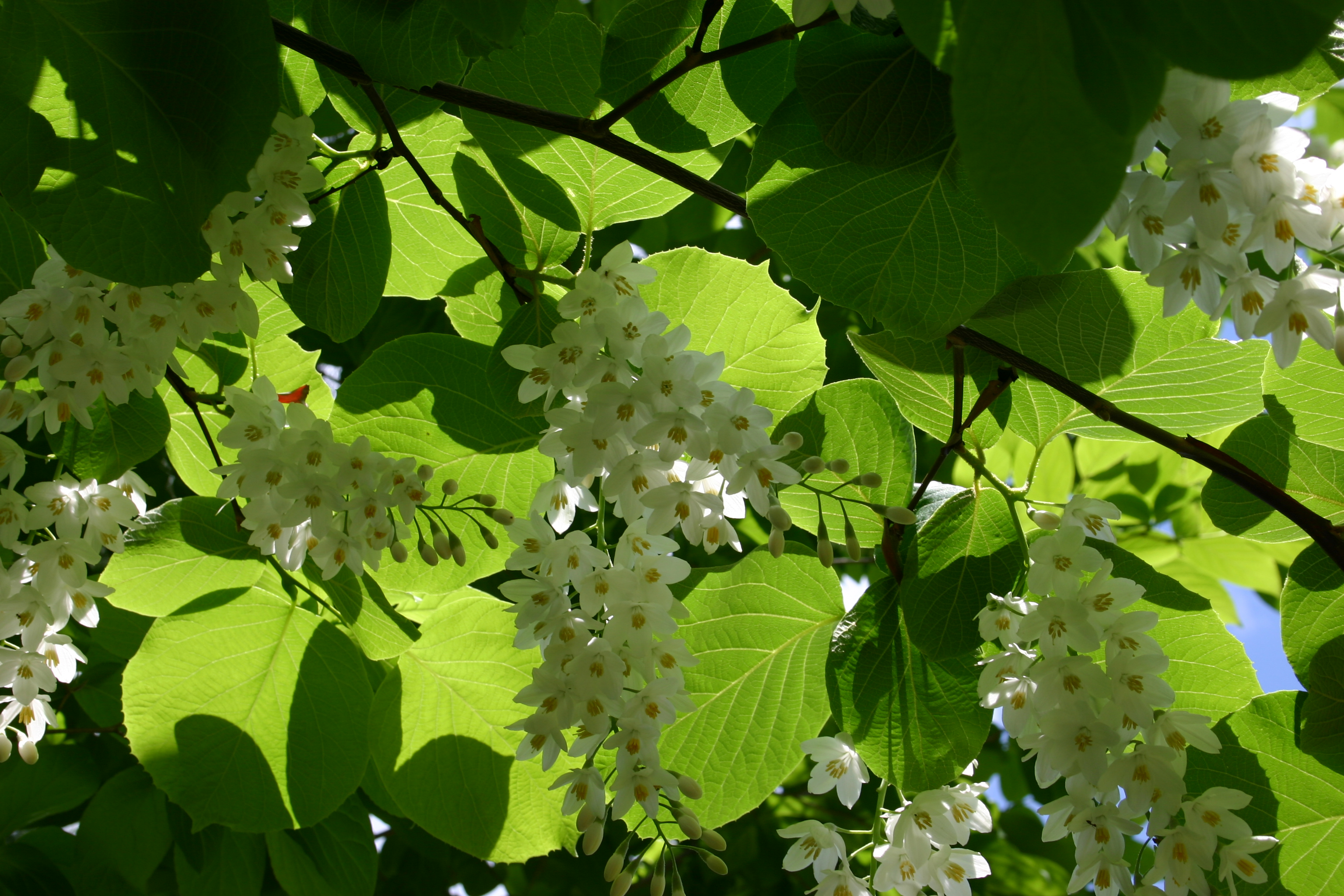 Flowers of Styrax obassia